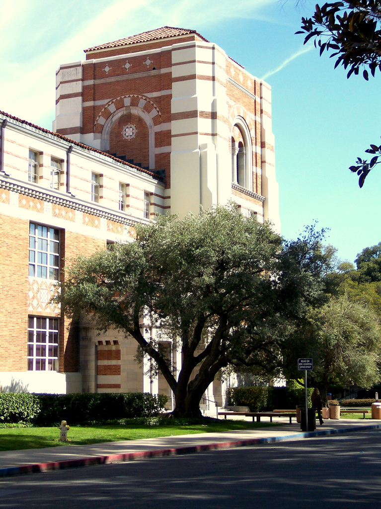 Dodd Hall,formerly Economics/Business Administration & Economics Building.